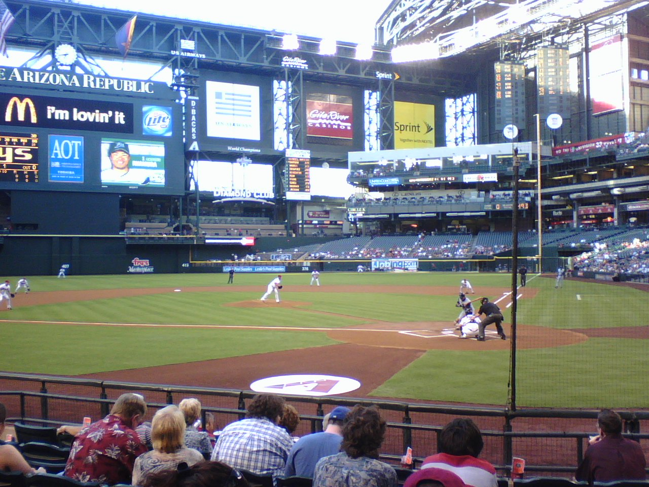 Chase Field